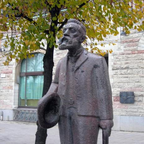 Statue of August Palm Mäster Palm, at Norra Bantorget in Stockholm.